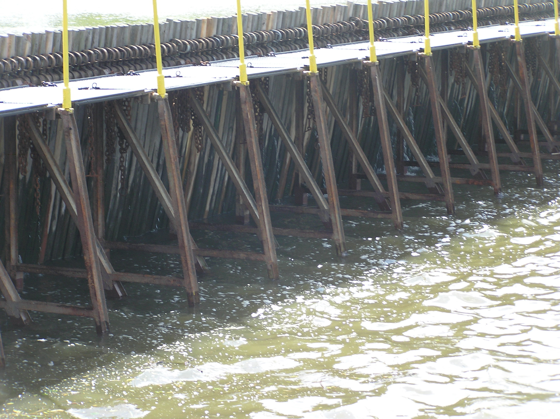 Wrocław, Psie Pole Weir